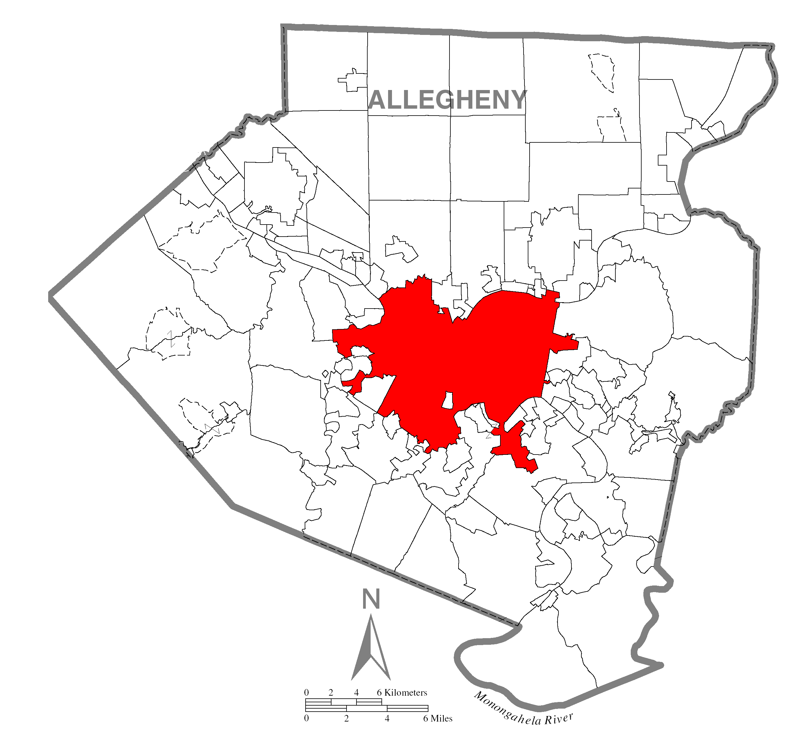 A map of Allegheny County showing Pittsburgh, Pennsylvania (alternate) highlighted on the map.